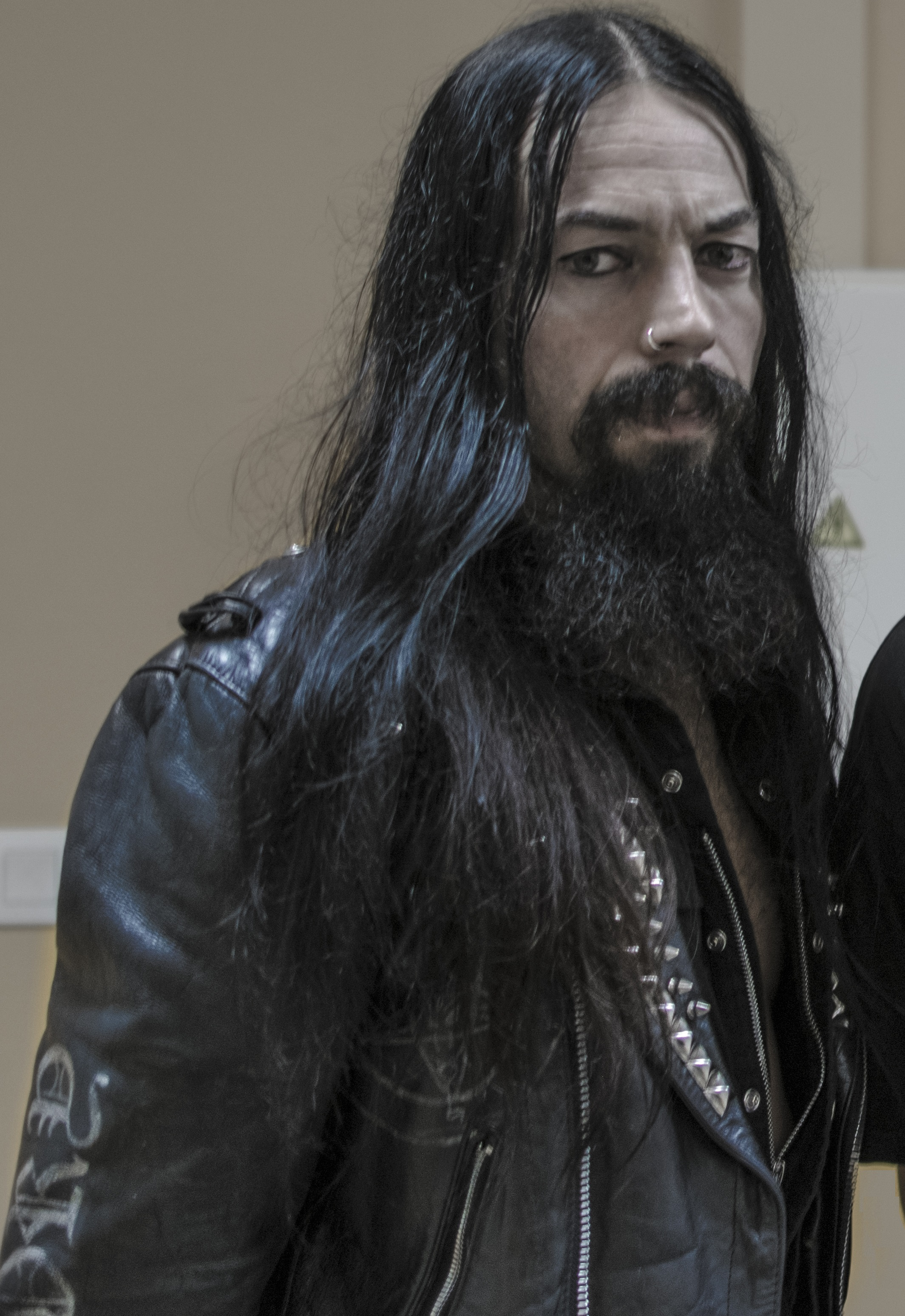 Satyricon's drummer Frost.